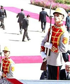 Guardsman of the ceremonial company of the Presidential National Guard of Tajikistan.